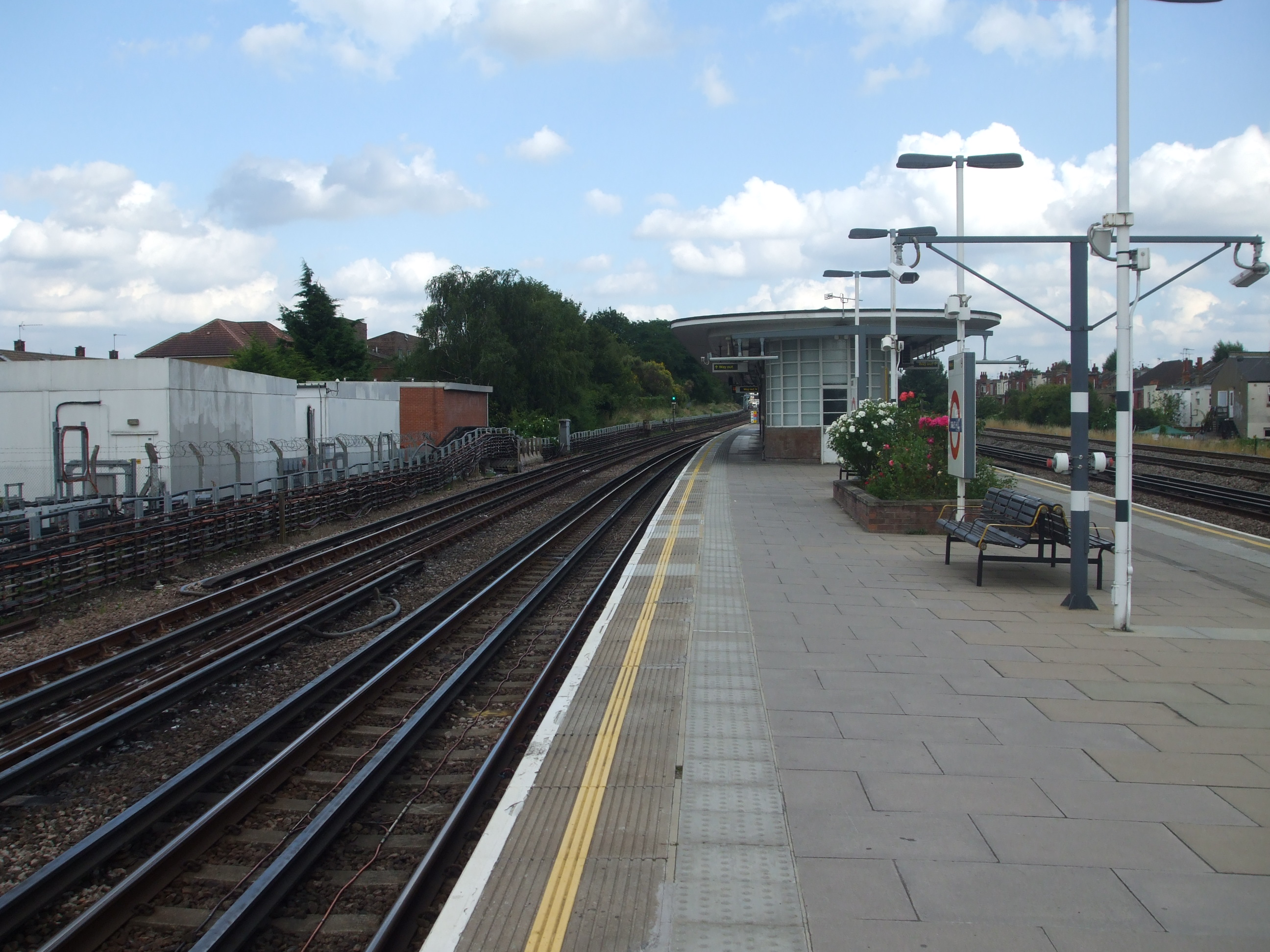 Dollis Hill tube station eastbound platform looking east. Fast Metropolitan line track visible on left.